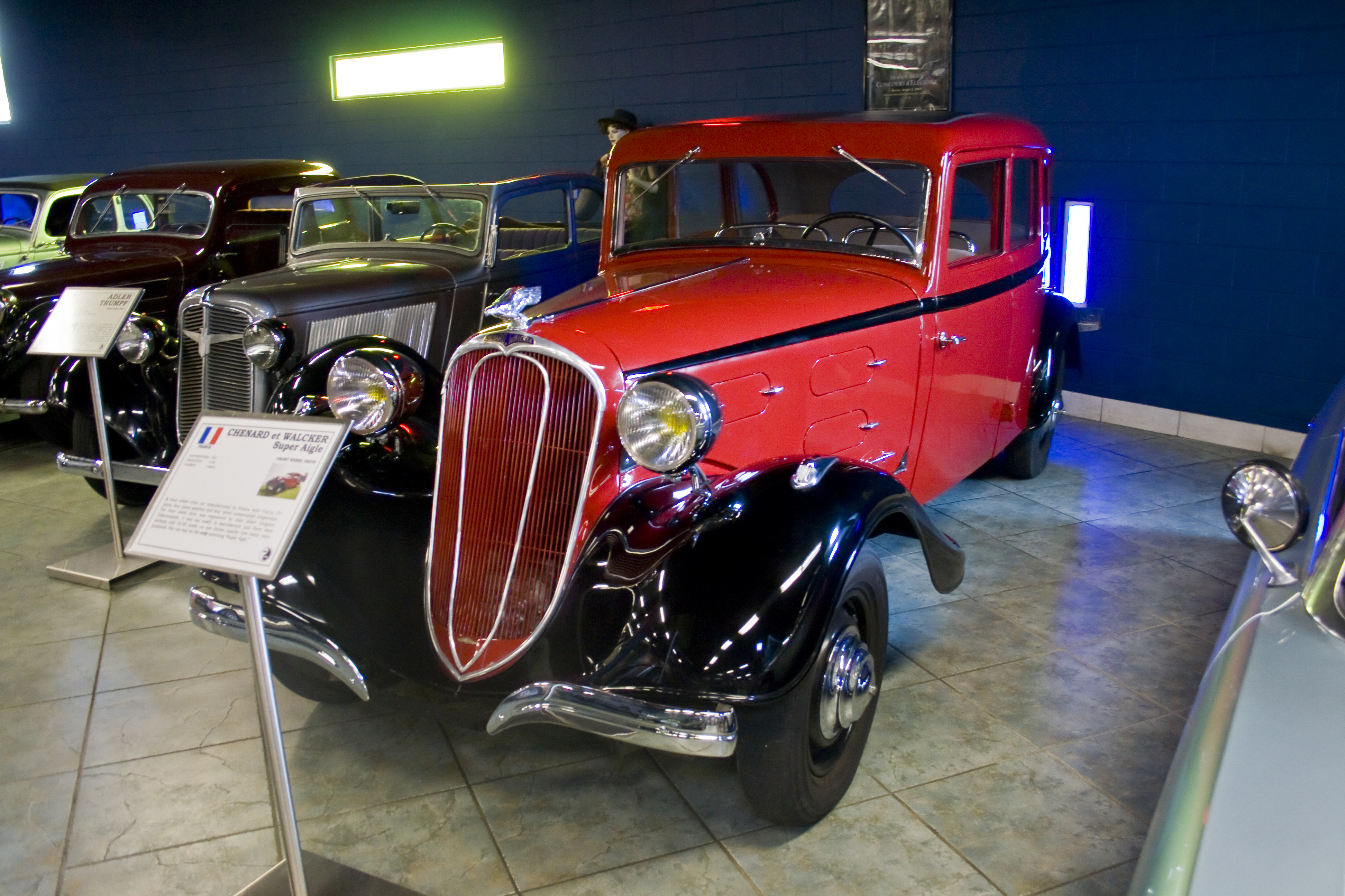 A large FWD car from 1933.